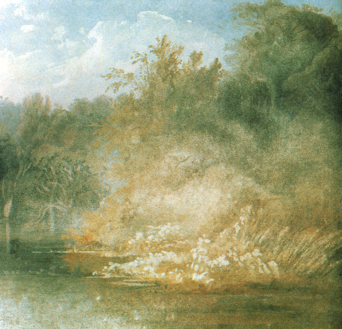 Forest Scene on the Lehigh River in Pennsylvania. Watercolor by Karl Bodmer 1832. de: Waldansicht am Fluß Lehigh in Pennsylvania. Detail eines Aquarells von Karl Bodmer 1832.